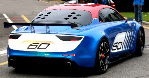 Alpine Celebration 2015 Prototype - rear